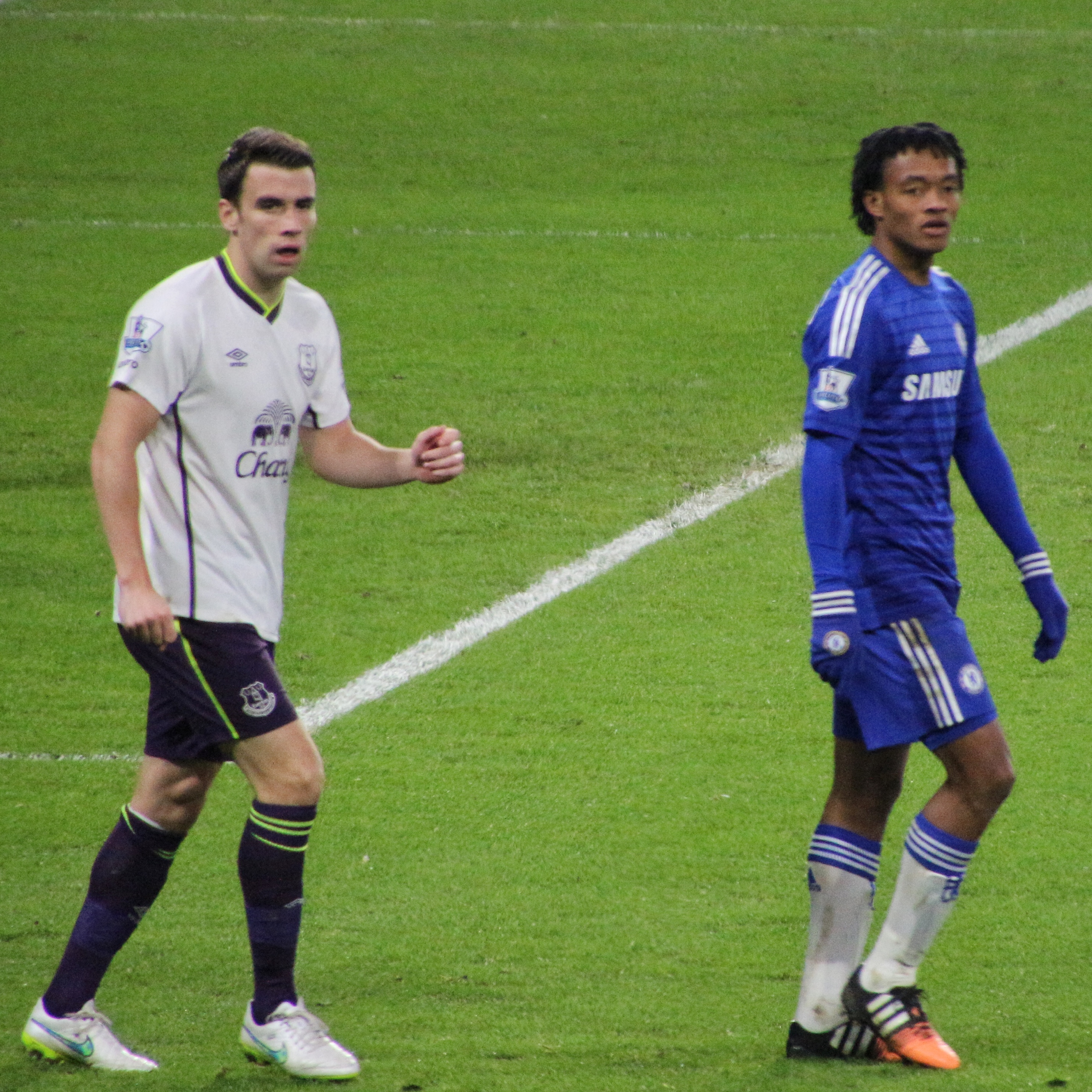 Chelsea 1 Everton 0